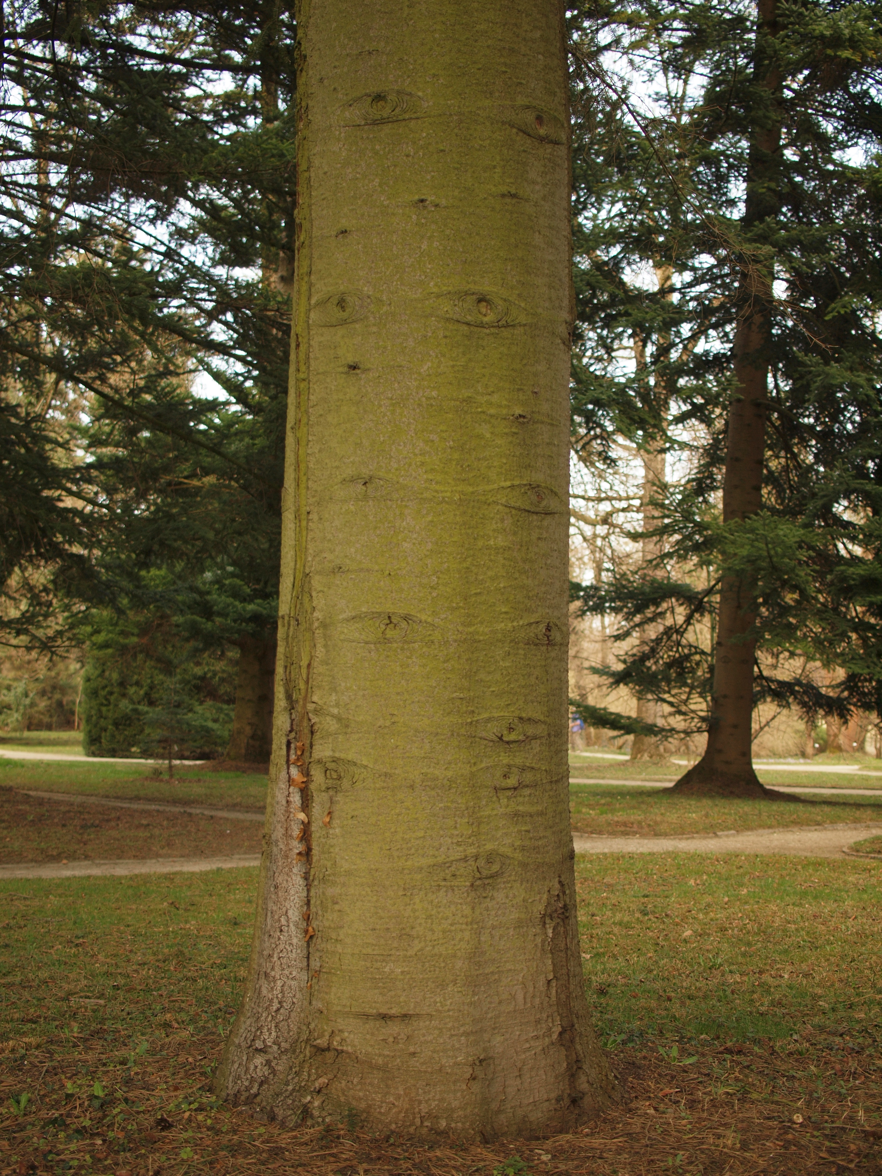 Abies cilicica bark and trunk